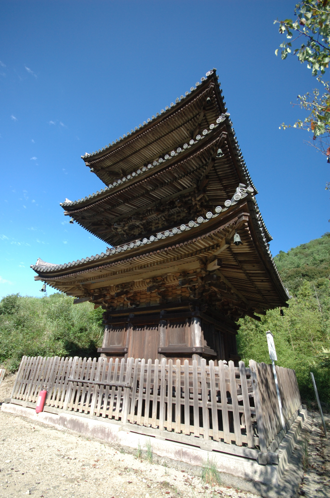 Three-storied Pagoda of Fukusho-ji temple (Japan's national important cultural property), Okayama Pref., Japan